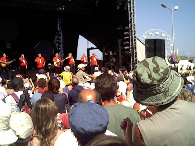 Sea shanties : the Goristes, from Brest city, at Paimpol Festival du chant de marin 2007